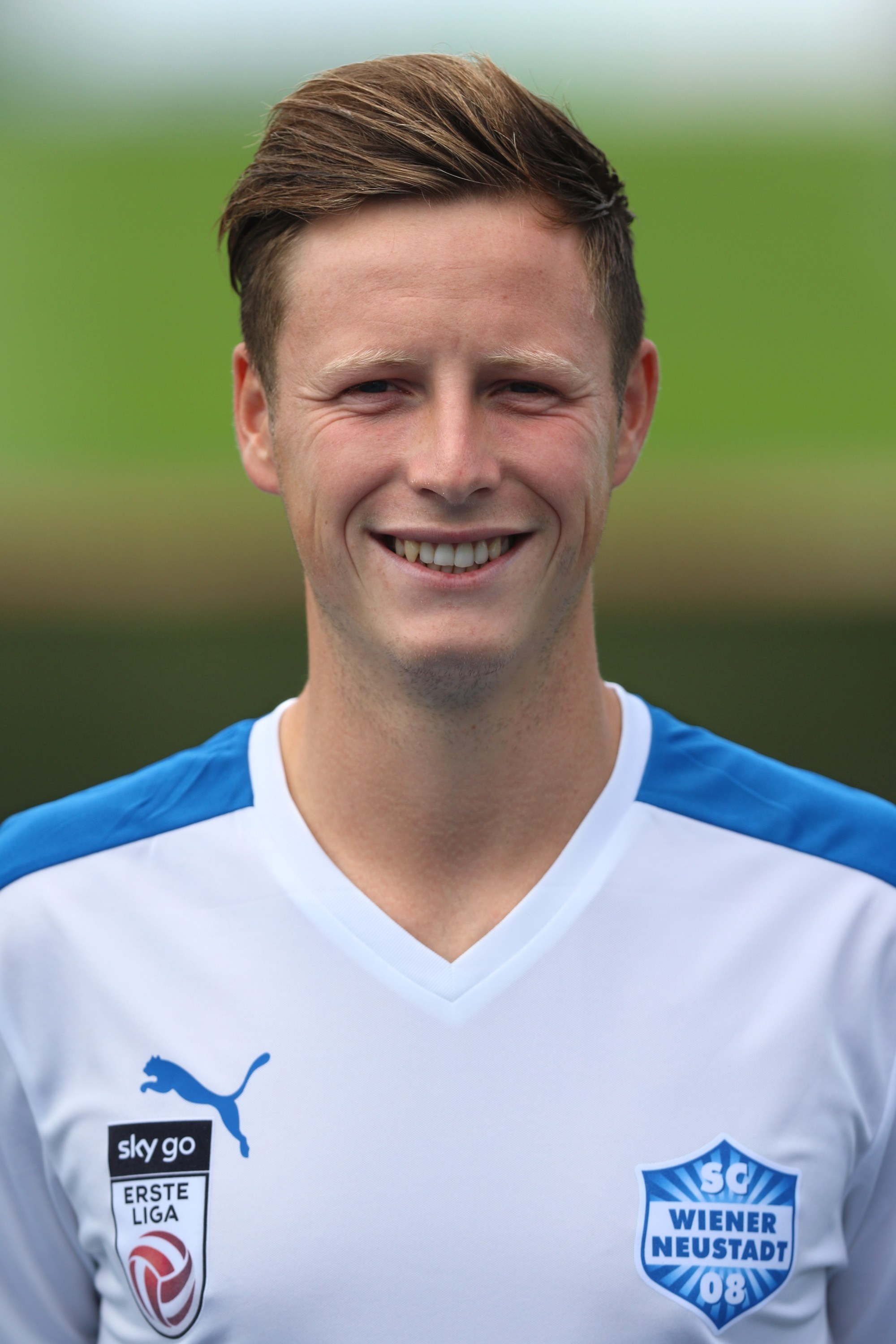 SC Wiener Neustadt squad presentation summer 2017. – The photo shows Fabian Miesenböck.